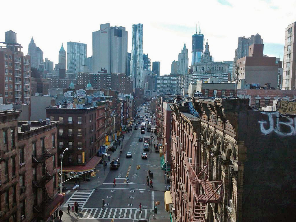 Madison Street in Manhattan; looking west from the Manhattan Bridge. The new One World Trade Center is visible on right. 8 Spruce Street by architect Frank Gehry; currently the tallest residential building in the Western hemisphere is the center. The Verizon Building is on the left.